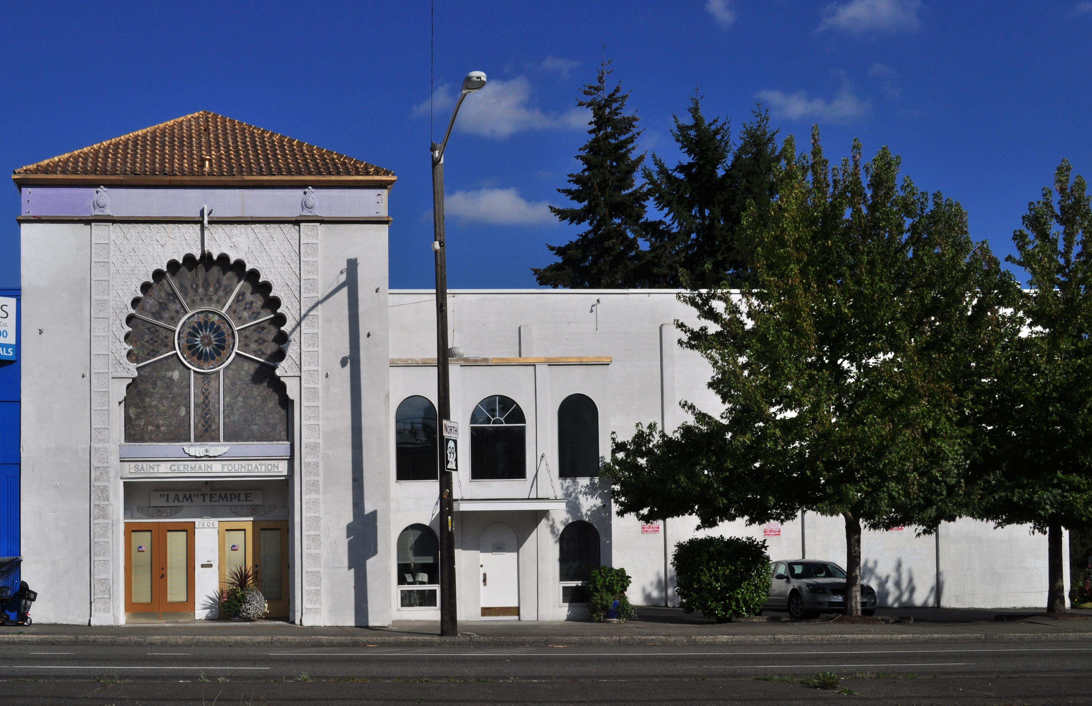 Saint Germain Foundation, 7608 Aurora Ave. N., Seattle, Washington